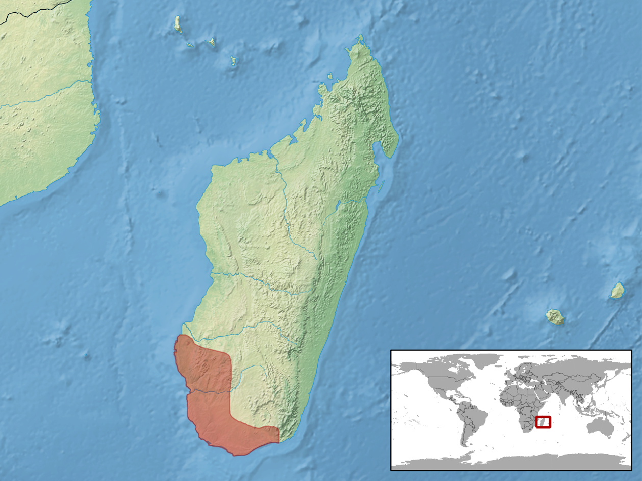 geographic distribution of Lygodactylus verticillatus (Native: Madagascar)